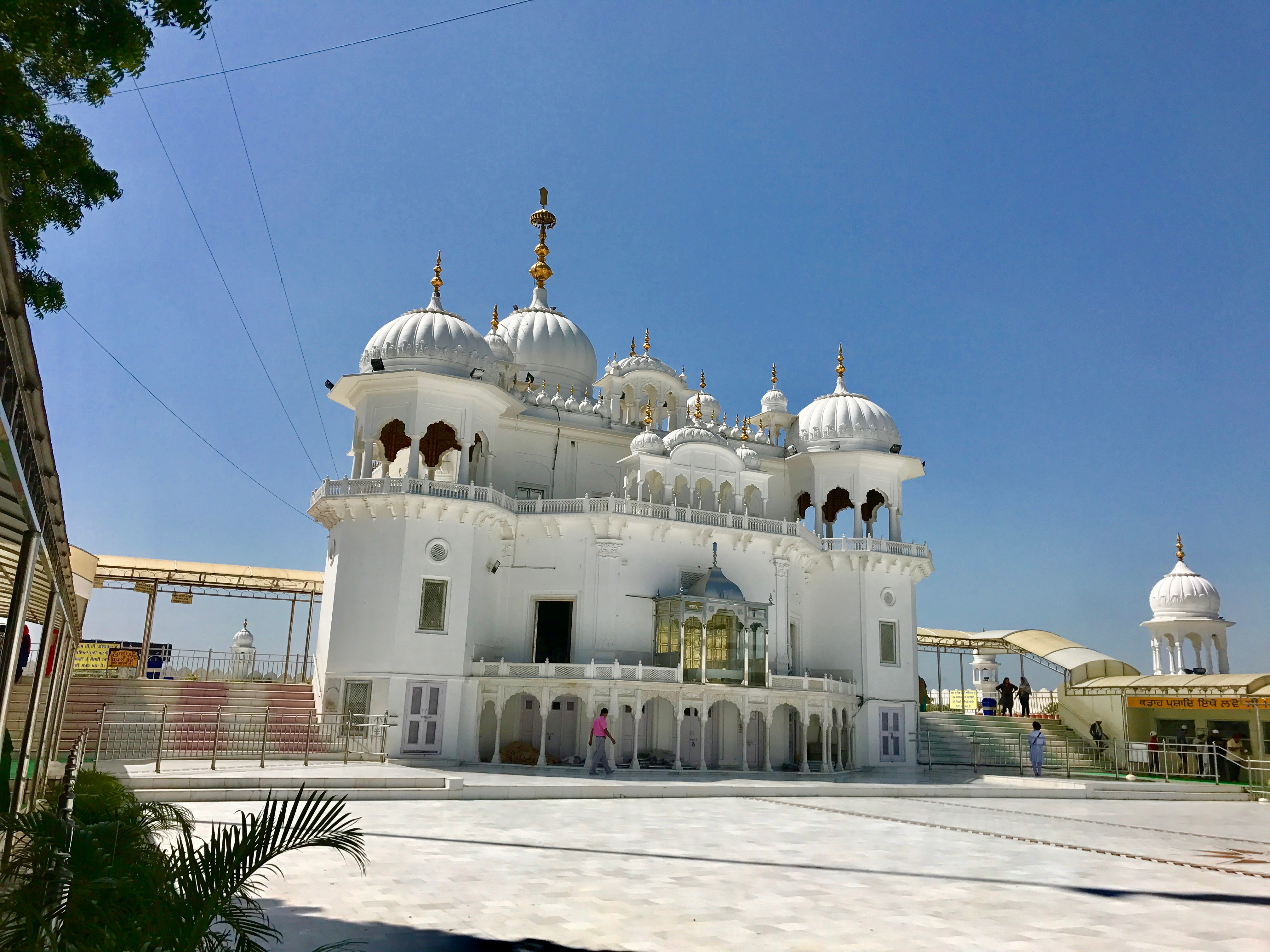 Takht Sri Keshgarh Sahib also known as Anandpur Sahib is the historic site in Sikhism where Khalsa was founded by Guru Gobind Singh. It is located near Himalayan foothills near the river Satluj. The site is second only to Amritsar, the city of Golden Temple in the Sikh tradition. Anandpur Sahib was founded in the year 1665 by the ninth Sikh Guru, Tegh Bahadur. A small town is the site of major annual gathering of Sikhs for Hola Mohalla festival every year in spring when other parts of India are celebrating Holi. It is a festive gathering with a display of martial arts, fairs and gaiety.